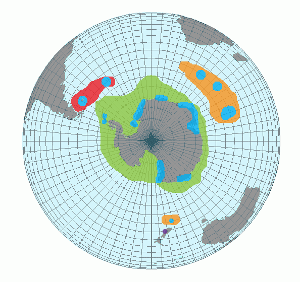 Composite range map of Aptenodytes Aptenodytes patagonicus patagonicus - red Aptenodytes patagonicus halli - orange Aptenodytes forsteri - pea green Aptenodytes ridgeni (fossil) - violet breeding grounds - cyan Based on the following maps Manchot_royal_carte_reparition.png Manchot empereur carte reparition.png